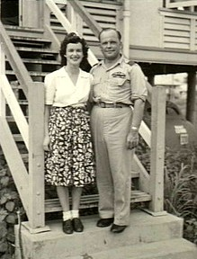 Darwin, NT. 5 February 1945. Portrait of newly married Wing Commander Robert Henry Maxwell (Bobby) Gibbes DSO DFC and bar and his wife, formerly Miss Jean Ince of Toorak, Vic, who is an Australian Red Cross hospital visitor.